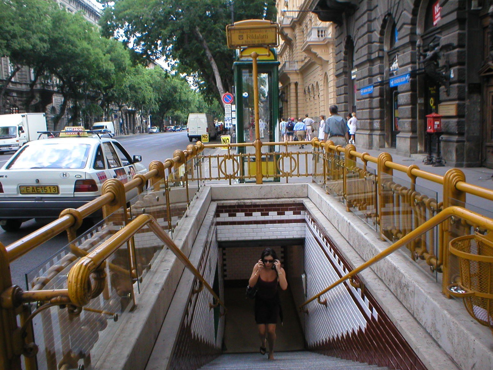 Entrance of the Budapest Földalatti station "Bajcsy-Zsilinszky út"